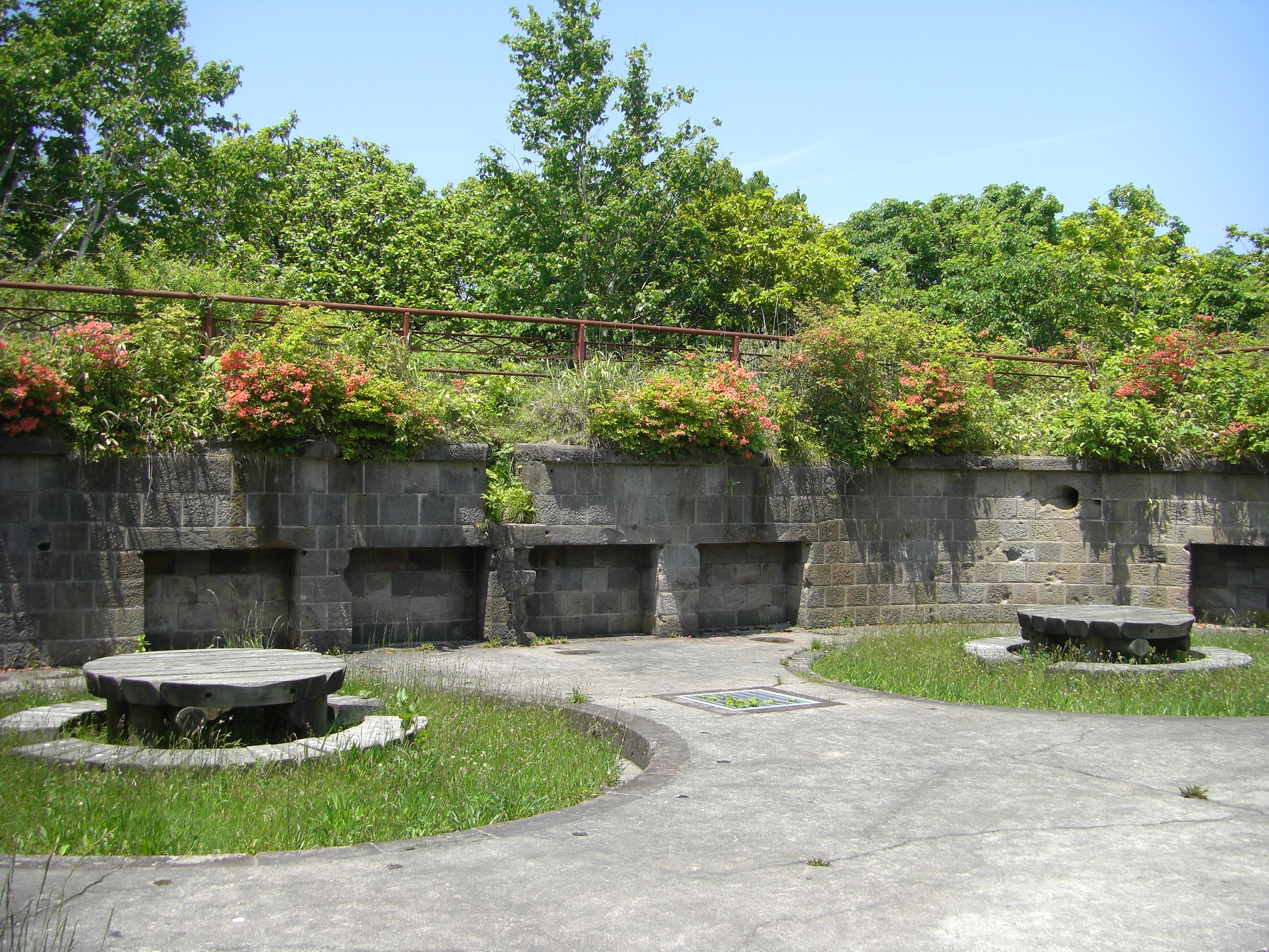 Sign of the battery at remains of Tsugaru Fort (Hakodate, Hokkaido, Japan)